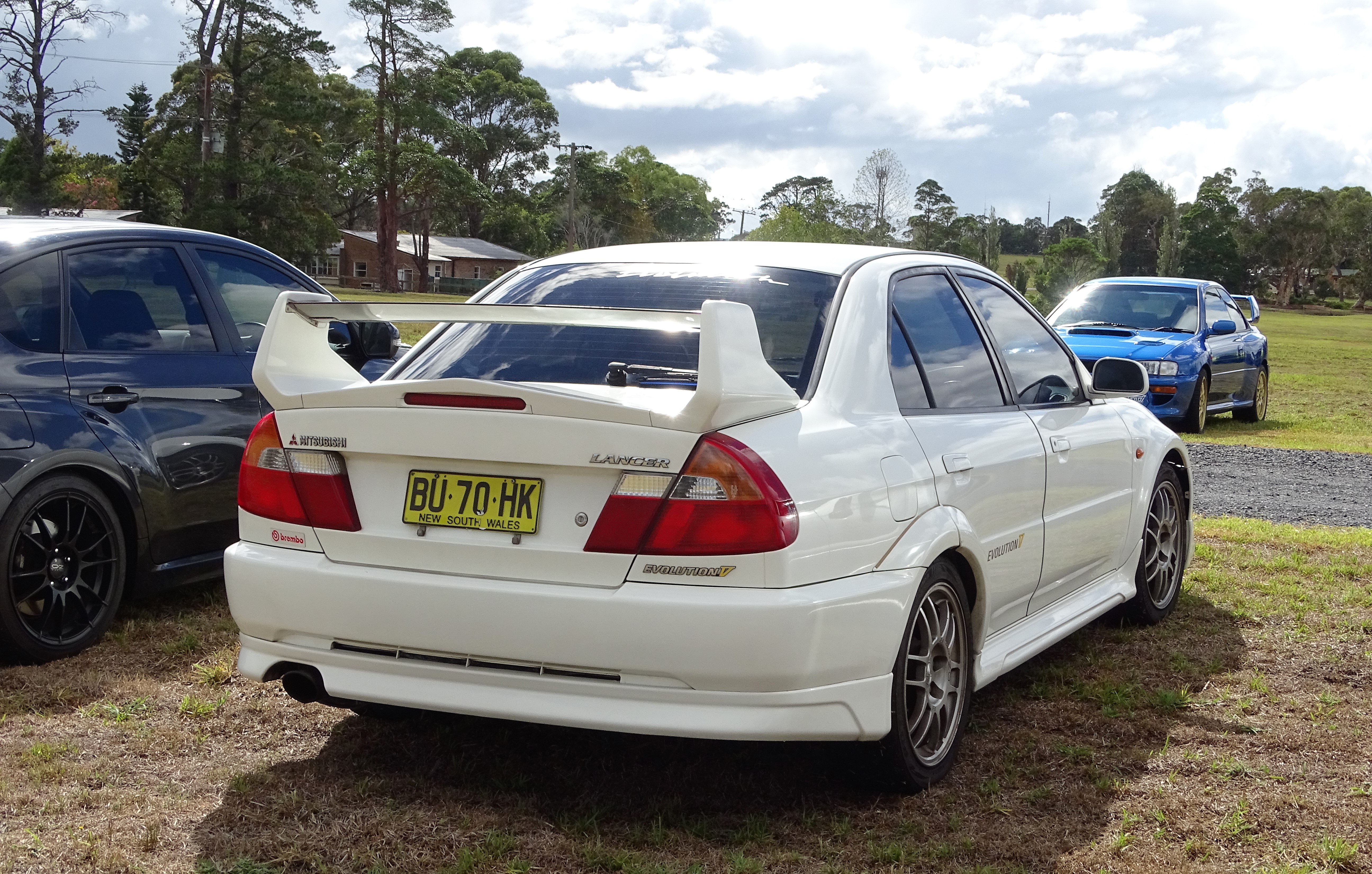 Mitsubishi Lancer Evolution V